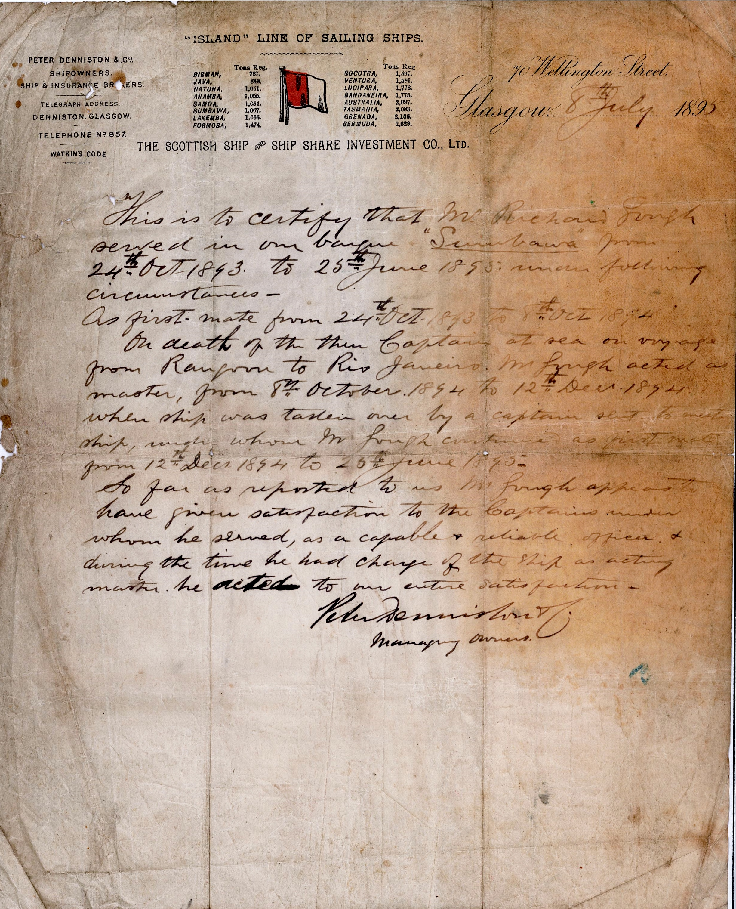 Certificate of service on sea for Richard P Gough: First Mate and the acting Master after the Captain's death at sea (1893-1895)